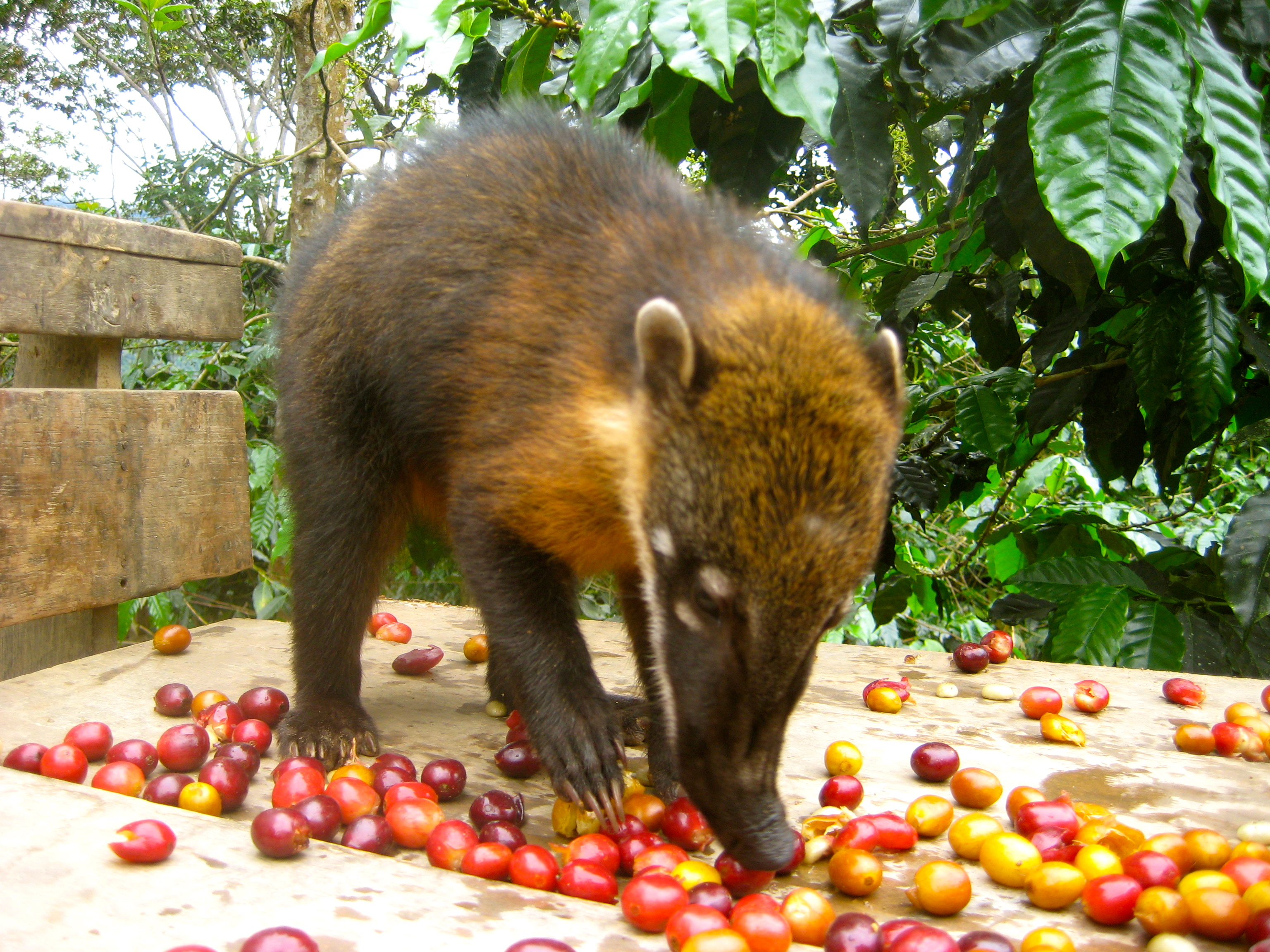 A South American coati